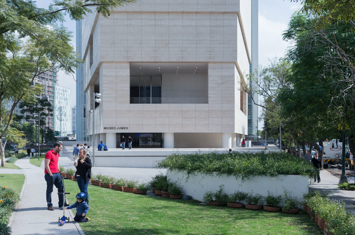 Museo Jumex